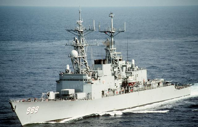 A port bow view of the destroyer USS DEYO (DD-989) underway south of Italy.